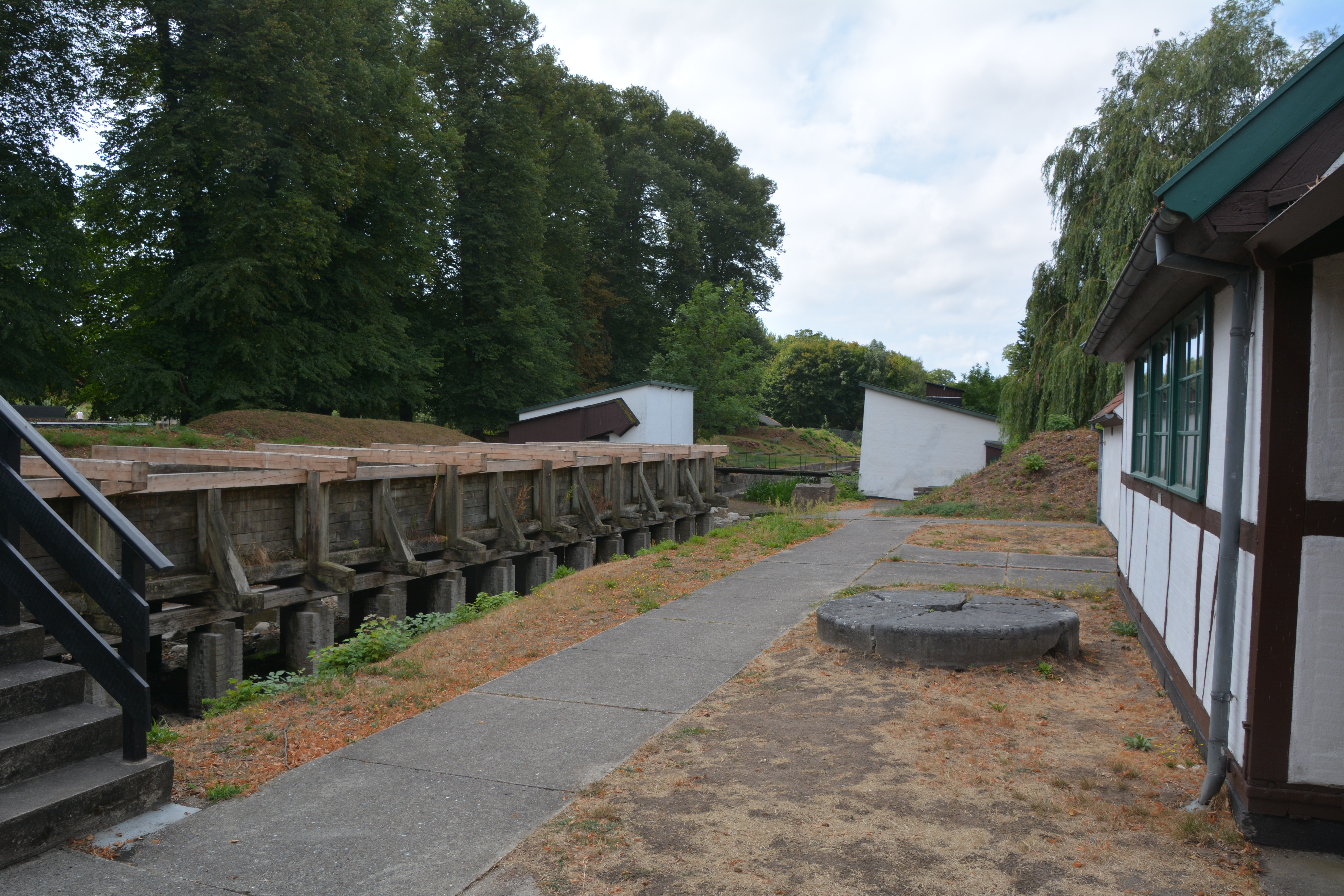 Kruthusmuseet Frederiksvaerk